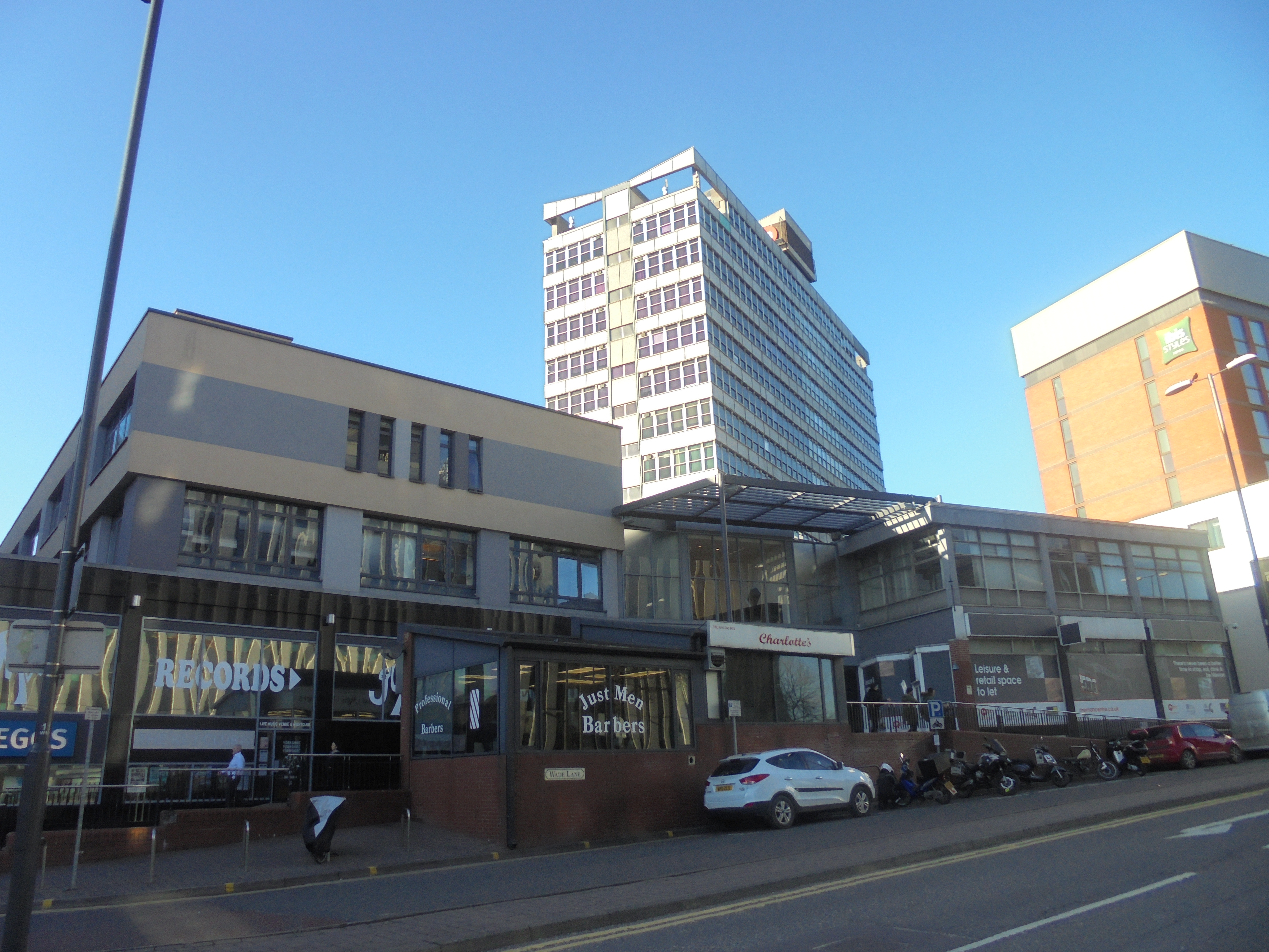 Wade Lane elevation of the Merrion Centre, Leeds, West Yorkshire. Taken on the afternoon of Monday the 28th of January 2019.